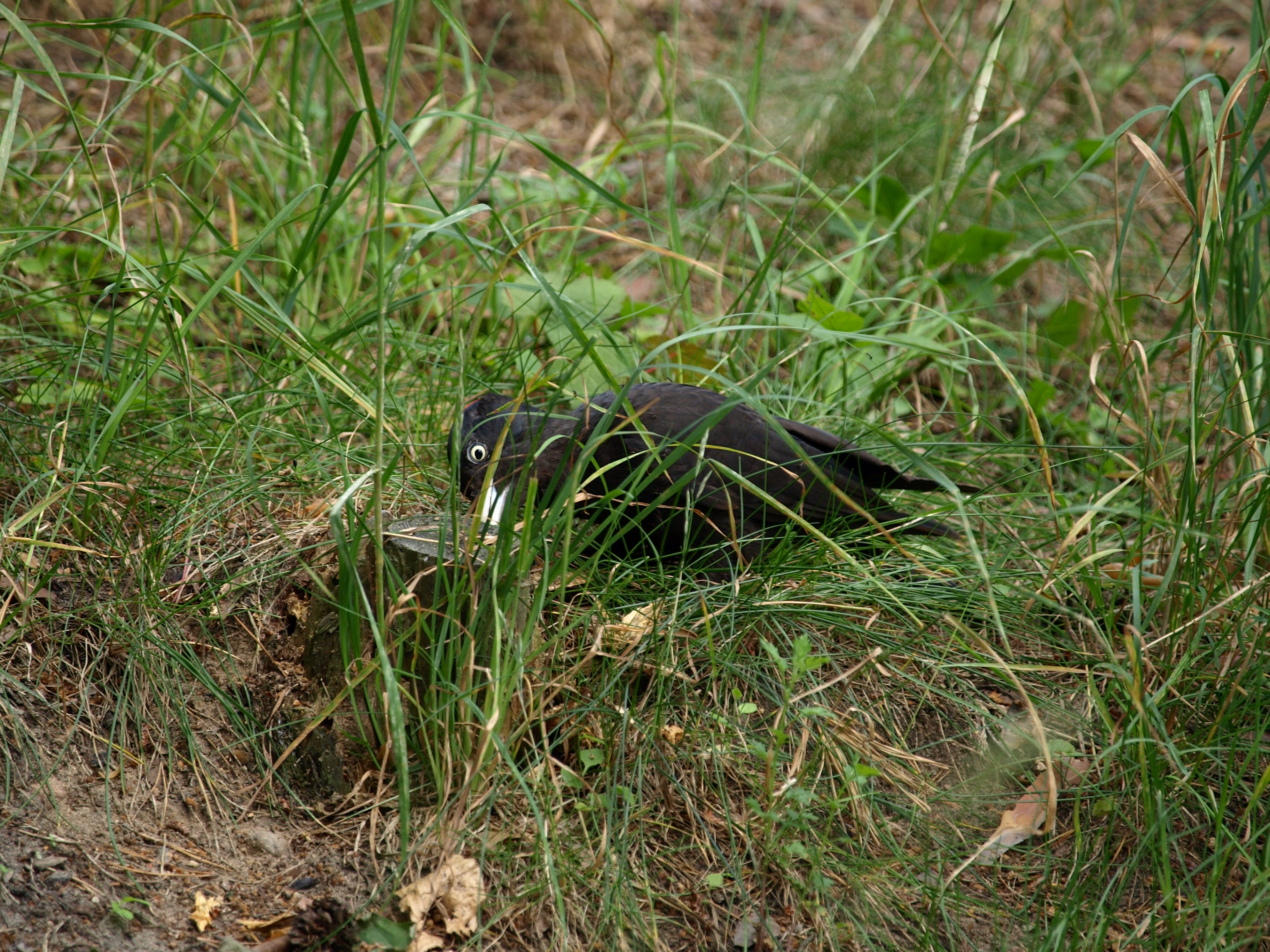 Dryocopus martius female